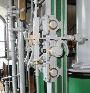 Taylors shaft engine - detailed view of locking mechanism - crop of image at